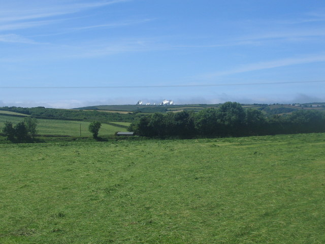 Farmland near Lower Stursdon A view looking to the west over freshly cut grassland. The buildings of Lower Stursdon can be seen in the trees, with the dishes of the GCHQ Bude site visible on the skyline.